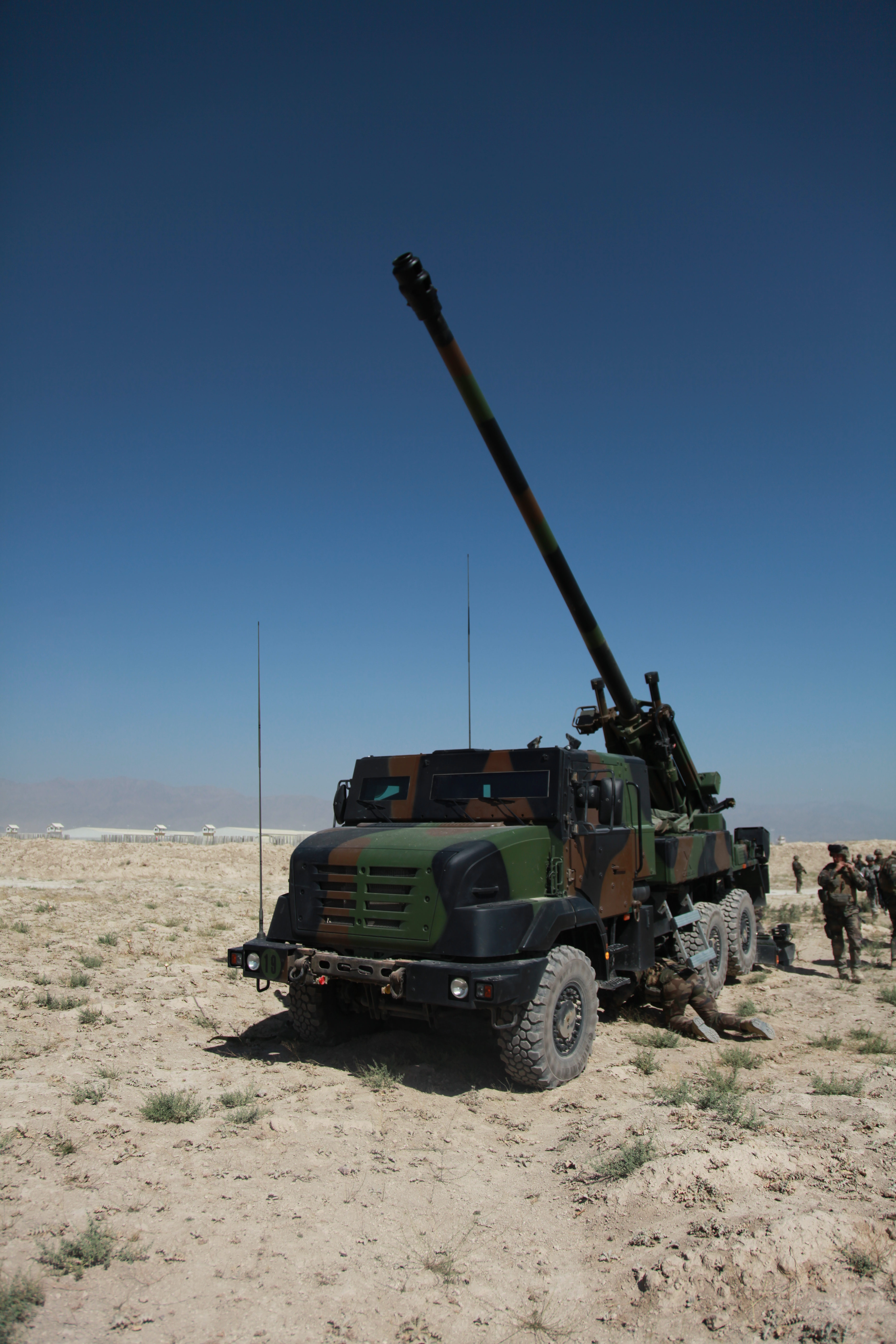 French soldiers conduct a live-fire exercise, with their Nexter Systems Caesar self-propelled wheeled armored vehicles, outside of Bagram Airfield, Afghanistan, August 14, 2009.